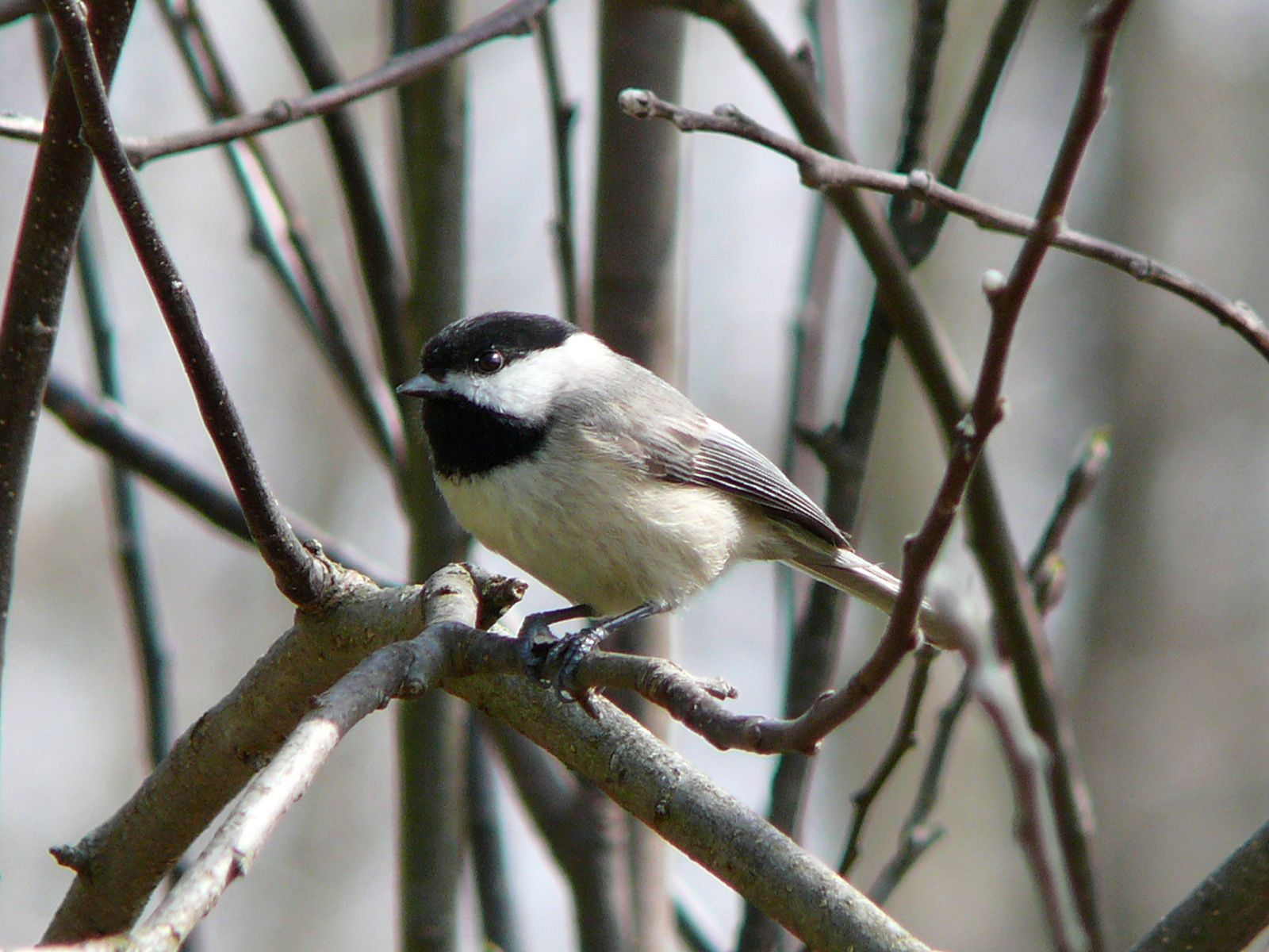 A Carolina Chickadee (Parus carolinensis) perched in the branches of an apple tree. Photo taken with a Panasonic Lumix DMC-FZ50 in Caldwell County, North Carolina, USA.